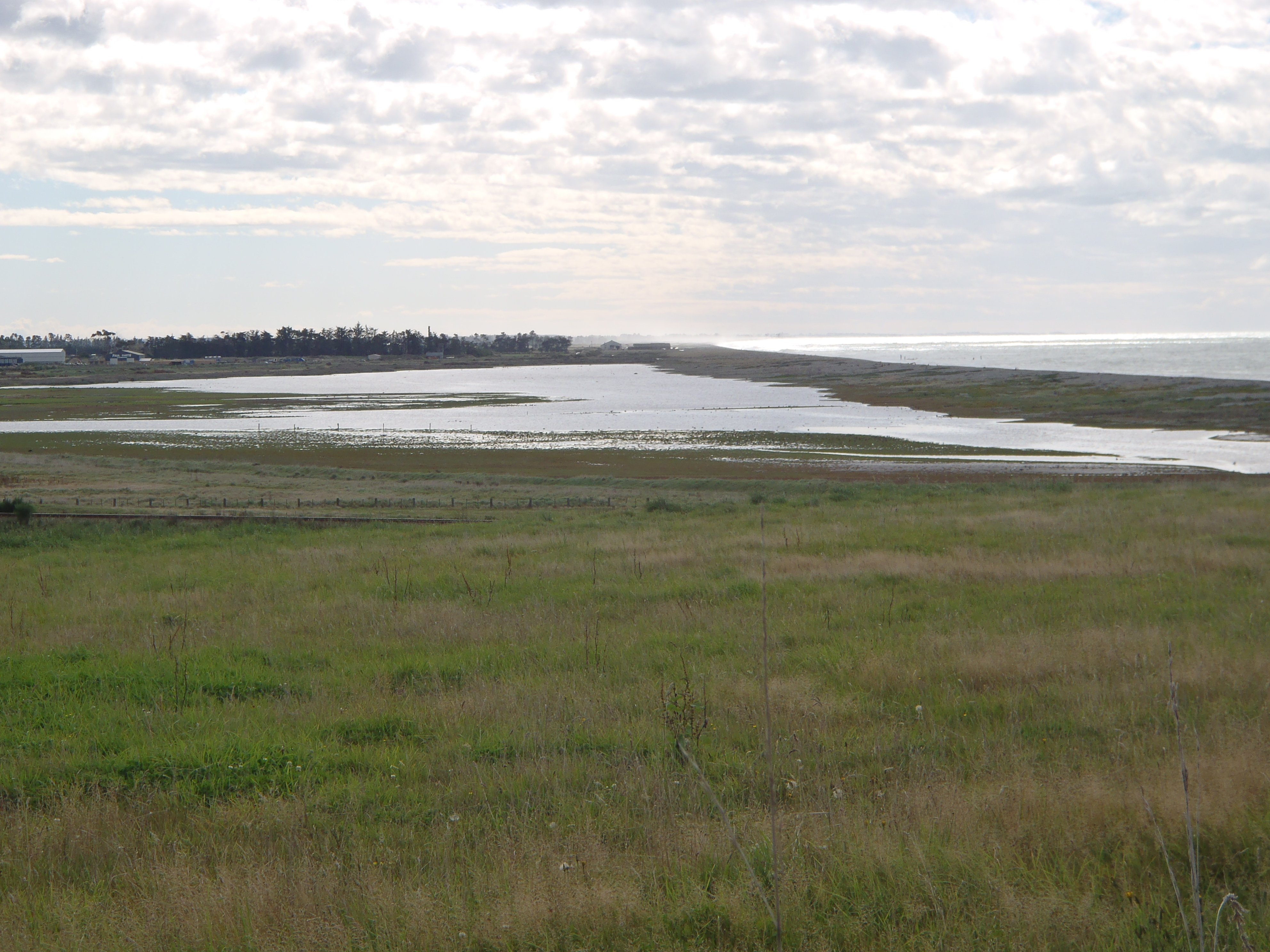 Photograph of Lagoon from road to freezing works